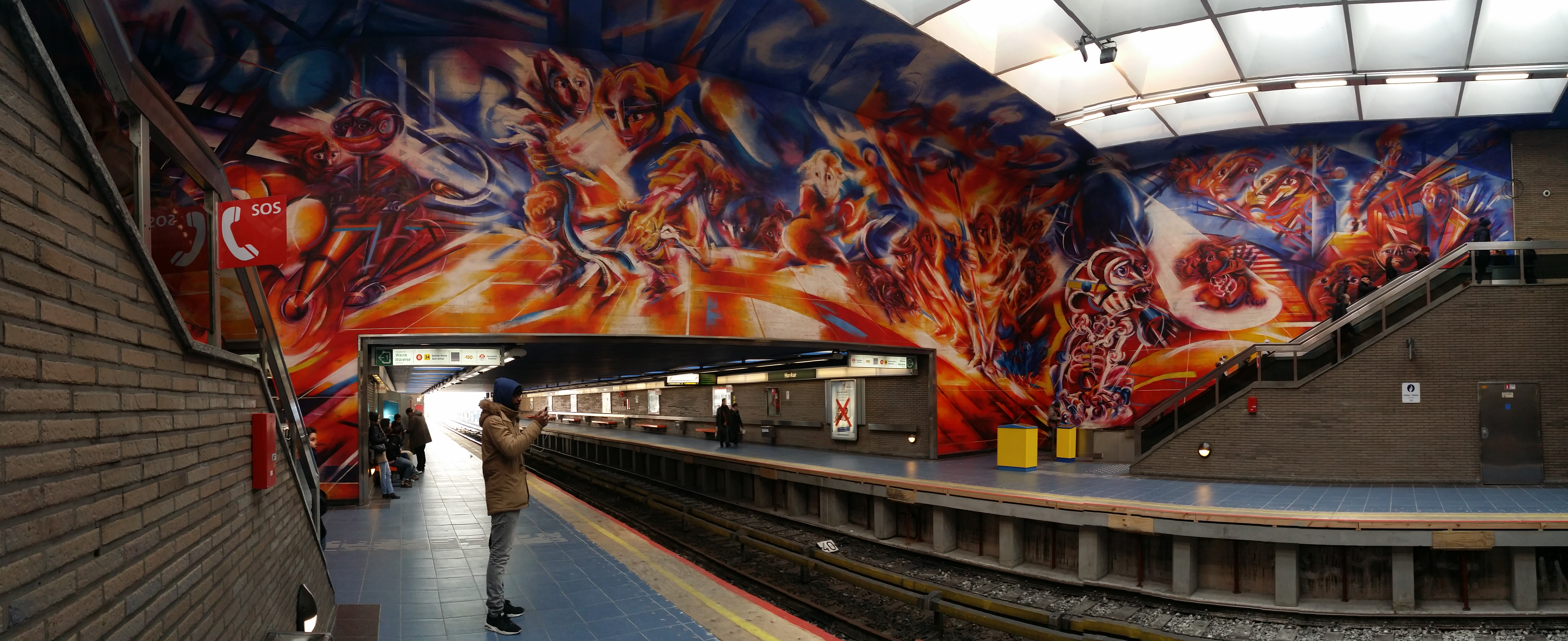 The very arty metro station Hankar in Auderghem, Brussels